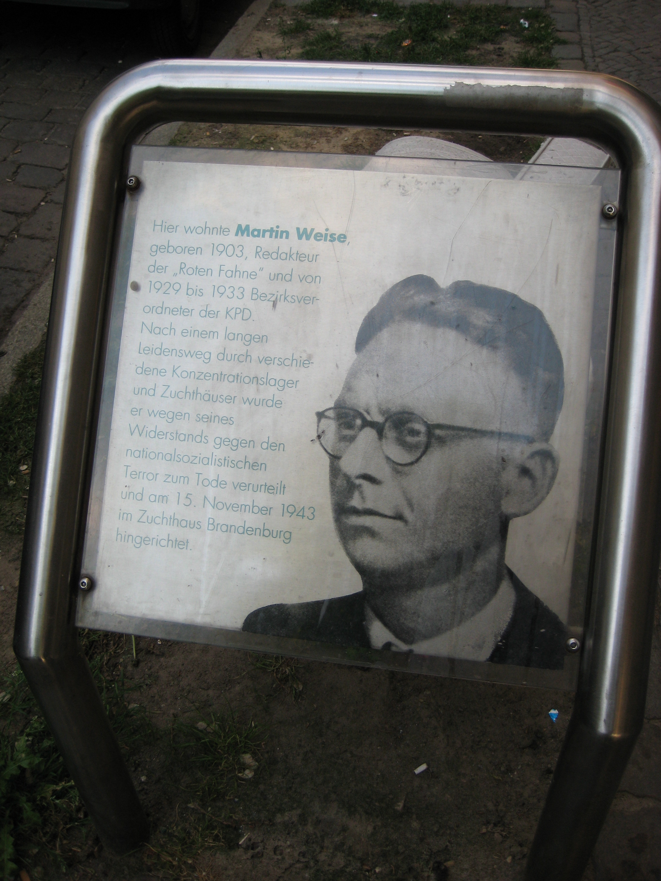 Memorial plate for Martin Weise, Jonasstrasse 42, Berlin